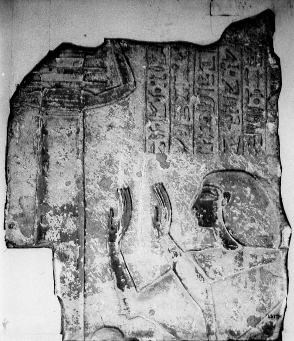 Relief from the tomb of the steward Haremhab, found at Saqqara, dating under Ramses II